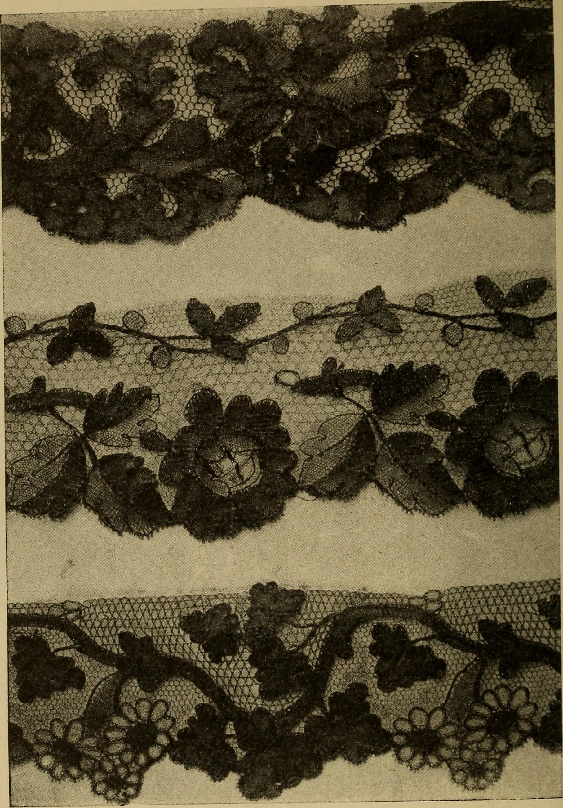 Title: Dentelles et guipures : anciennes et modernes, imitations ou copies. Varieté des genres et des points. 52 portraits documentaires, 249 échantillons de dentelles, collerettes, fraises, manchettes, rabats, etc. Year: 1904 (1900s) Authors: Lefébure, Auguste, 1864- Subjects: Lace and lace making Bobbin lace Publisher: Paris : E. Flammarion Text Appearing Before Image: FiG. 170. — ÉVENTAIL, DENTELLE DE BAYEUX. DENTELLES DU CALVADOS, XIX SIECLE. Text Appearing After Image: FiG. 171. — DENTELLES BLONDE. Travail aux fuseaux, oxéculé à Bayoux. Xl\ snxLE. DENTELLE DU CALVADOS.